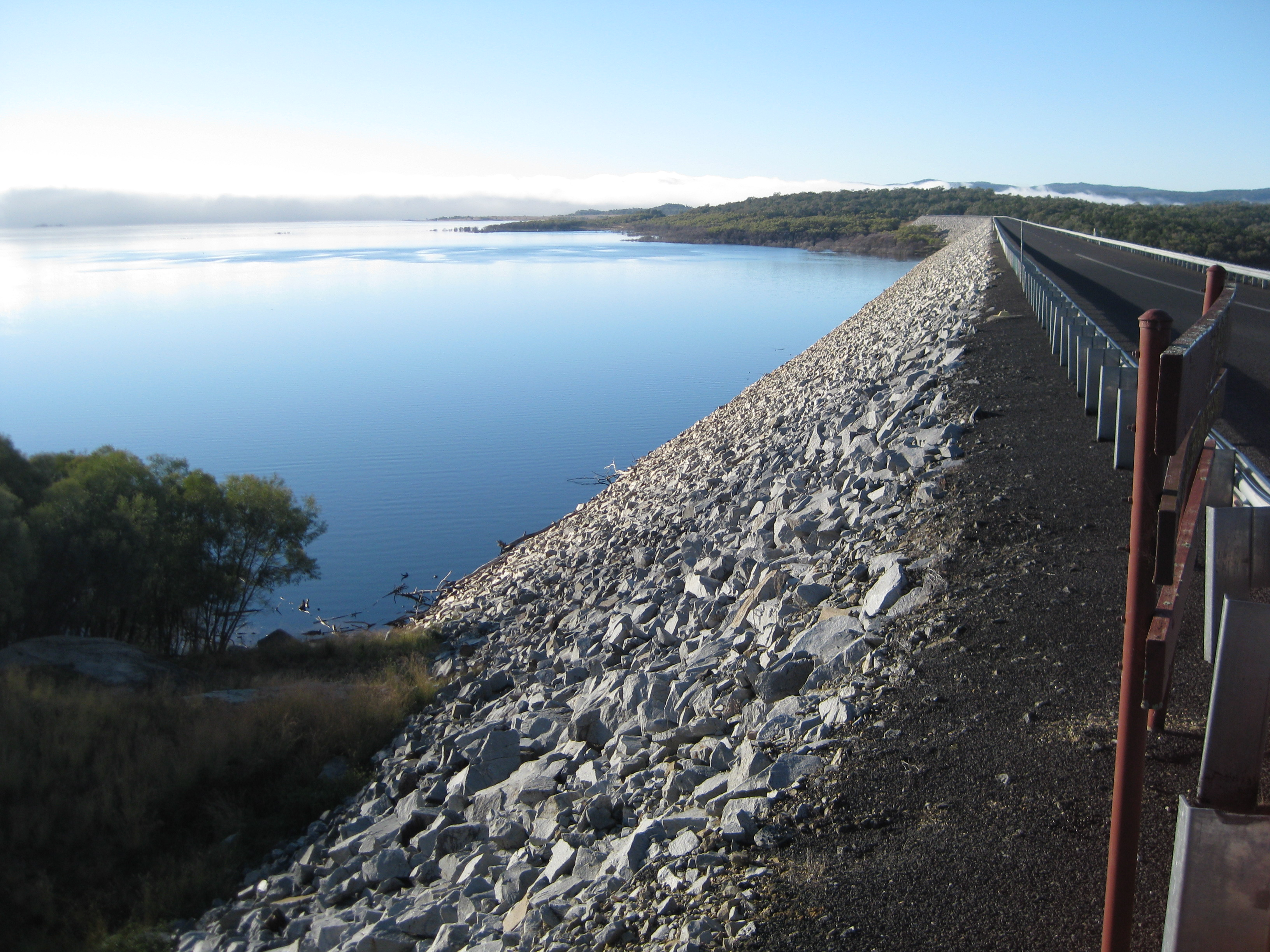 Copeton Dam rock wall - NSW Australia